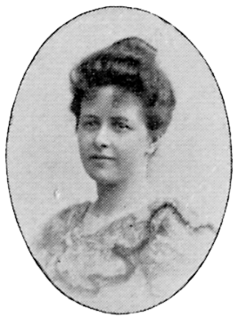 Image scanned from the book "Svenskt Porträttgalleri XX - Arkitekter, Bildhuggare, Målare m.fl. " ("Swedish Portrait Gallery XX - Architects, Sculptors, Painters, ") published 1901